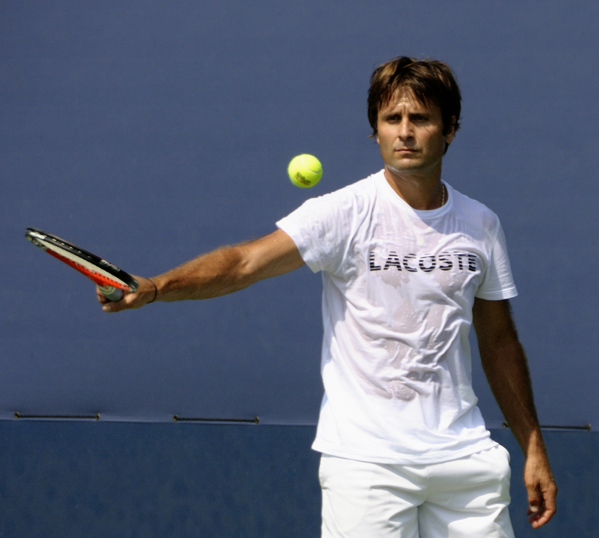 Fabrice Santoro at the 2009 US Open